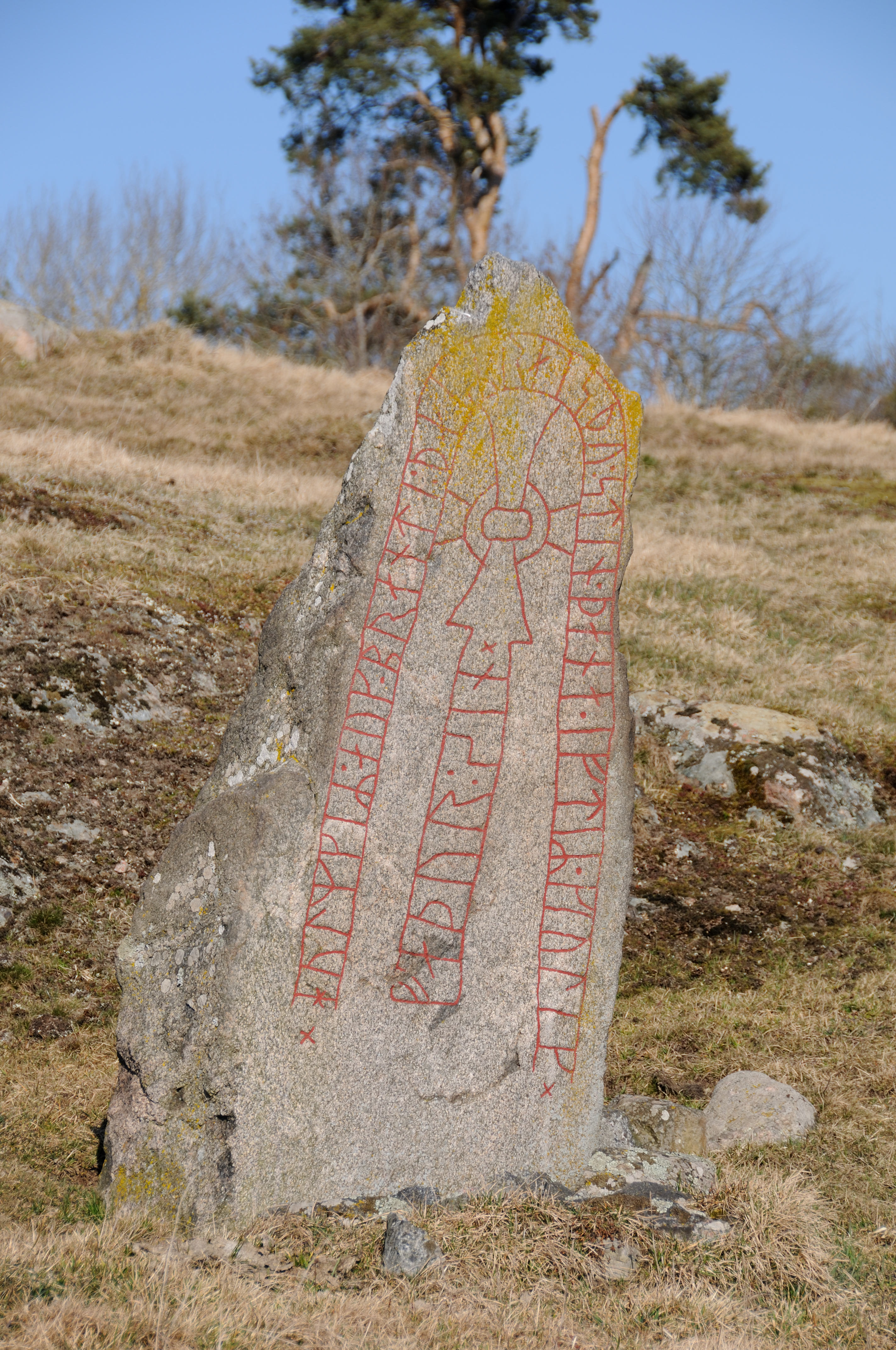 Runestone Ög 20, Kuddby parish, Östergötland.